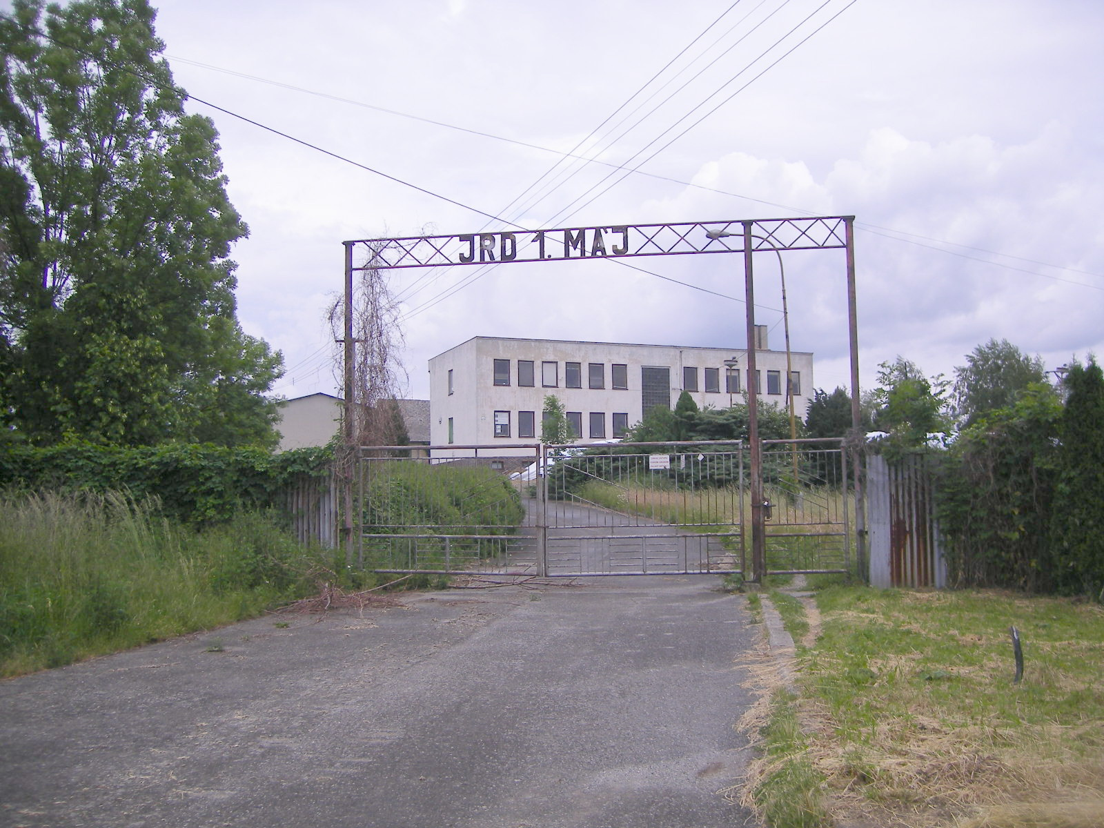 Dražkovce - JRD (agricultural company) 1. máj